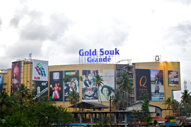 Gold souk shopping mall in Kochi, Kerala